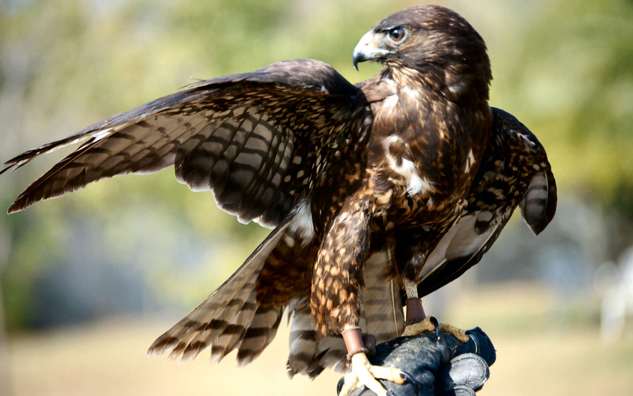 Male juvenile black phase Short-tailed Hawk (Buteo brachyurus), taken by myself on Dec 21 2007 in Monterrey, Mexico.